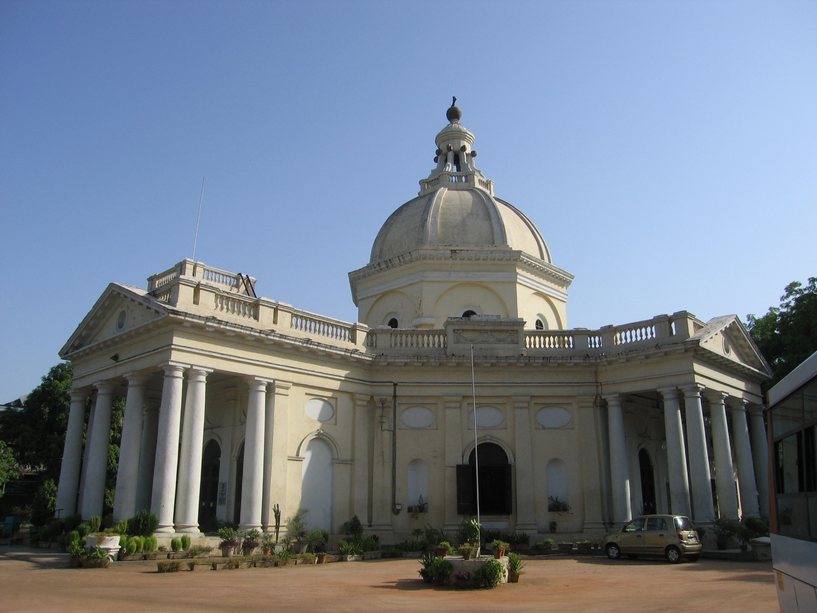 St. James' Church, Delhi, India. Near Kashmere Gate. It was built between 1826-36, by James Skinner, and designed by Major Robert Smith and was built to a cruciform plan, with three porticoed porches and a central octagonal dome.